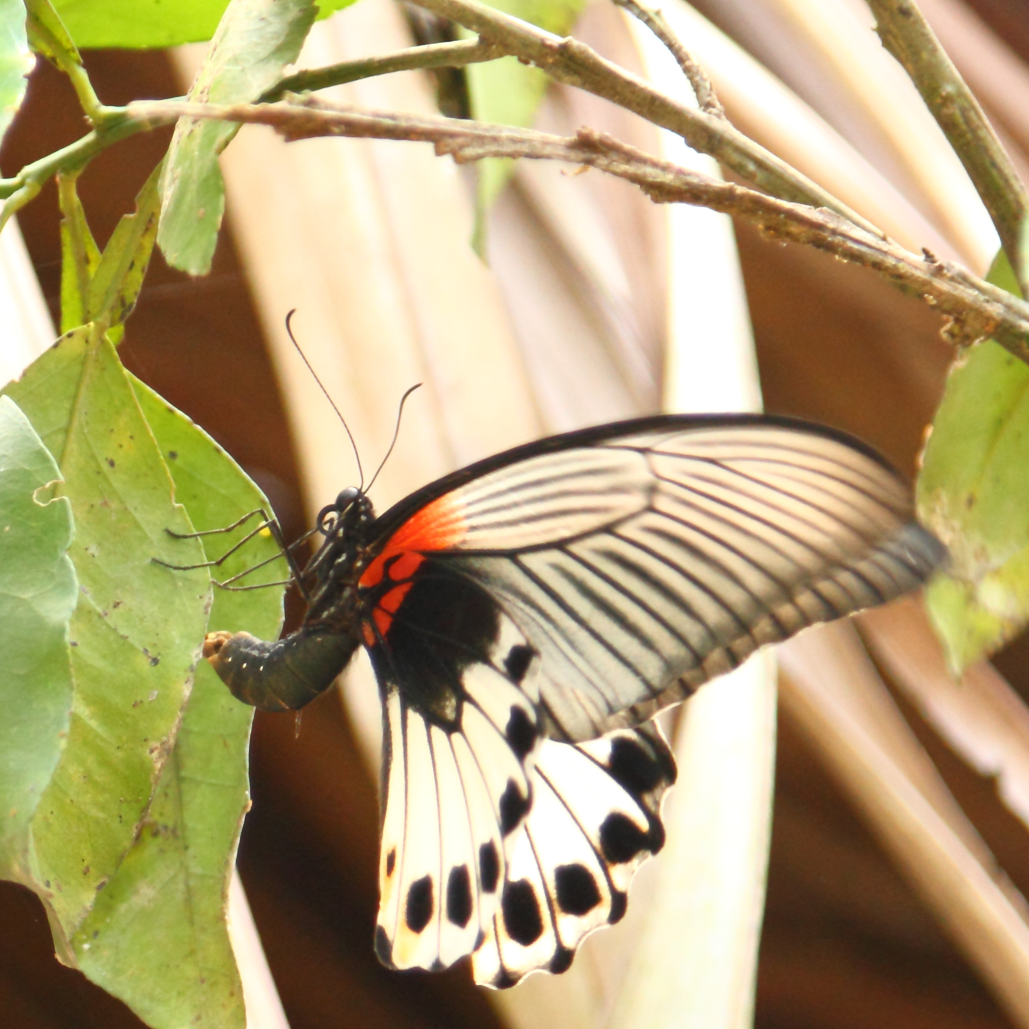 Laying eggs on leaves.